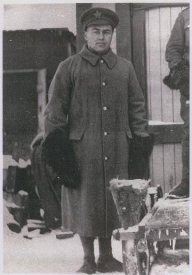 Guard Peter Pappin German prisoner of war Camp 23, Monteith Ontario. Related to: Image:Joseph_Pappin_Pvt.jpgit is a photograph that was created before January 1, 1949 The copyright designation was chosen as the best match based on the description of its usage: "for Canadian photographs not subject to Crown copyright taken before 1949.".